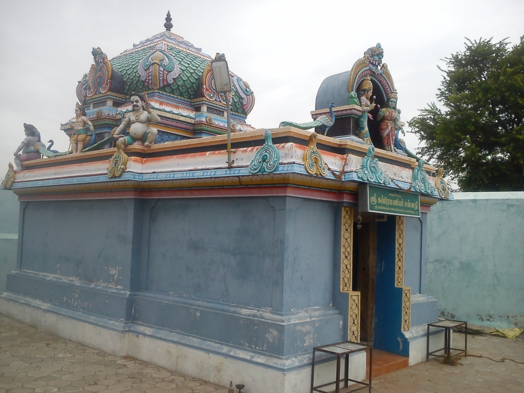 lordmuruga